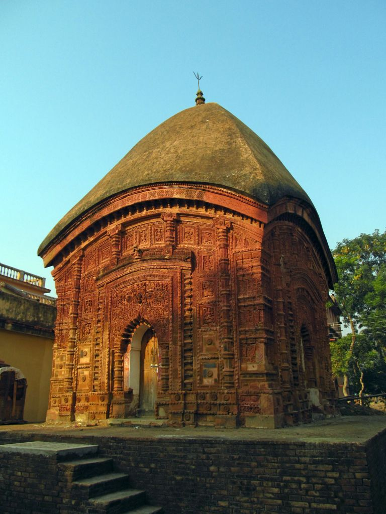 Siva temple at Ghurisa